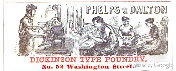 Ad for Phelps & Dalton; Dickinson Type Foundry